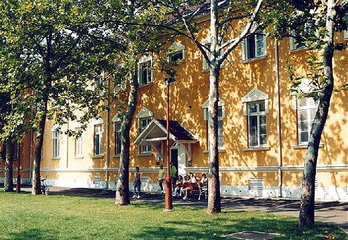 The dornitory for girls